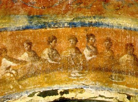 Fractio panis ("the ceremonial breaking of the eucharistic bread for distribution" during the meal of Holy Communion) in the Greek chapel (Capella Greca) of the Catacombe di Priscilla in Rome. Fresco of a Christian Agape feast. 2nd - 4th century.